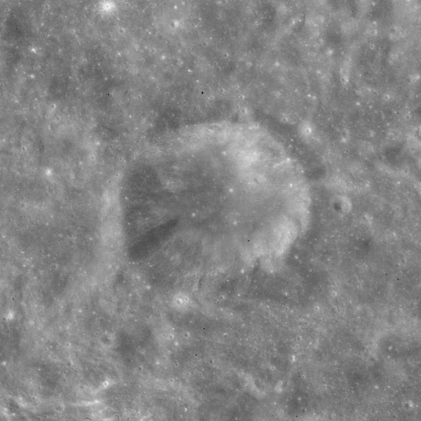 Somerville, on the moon. North at top.